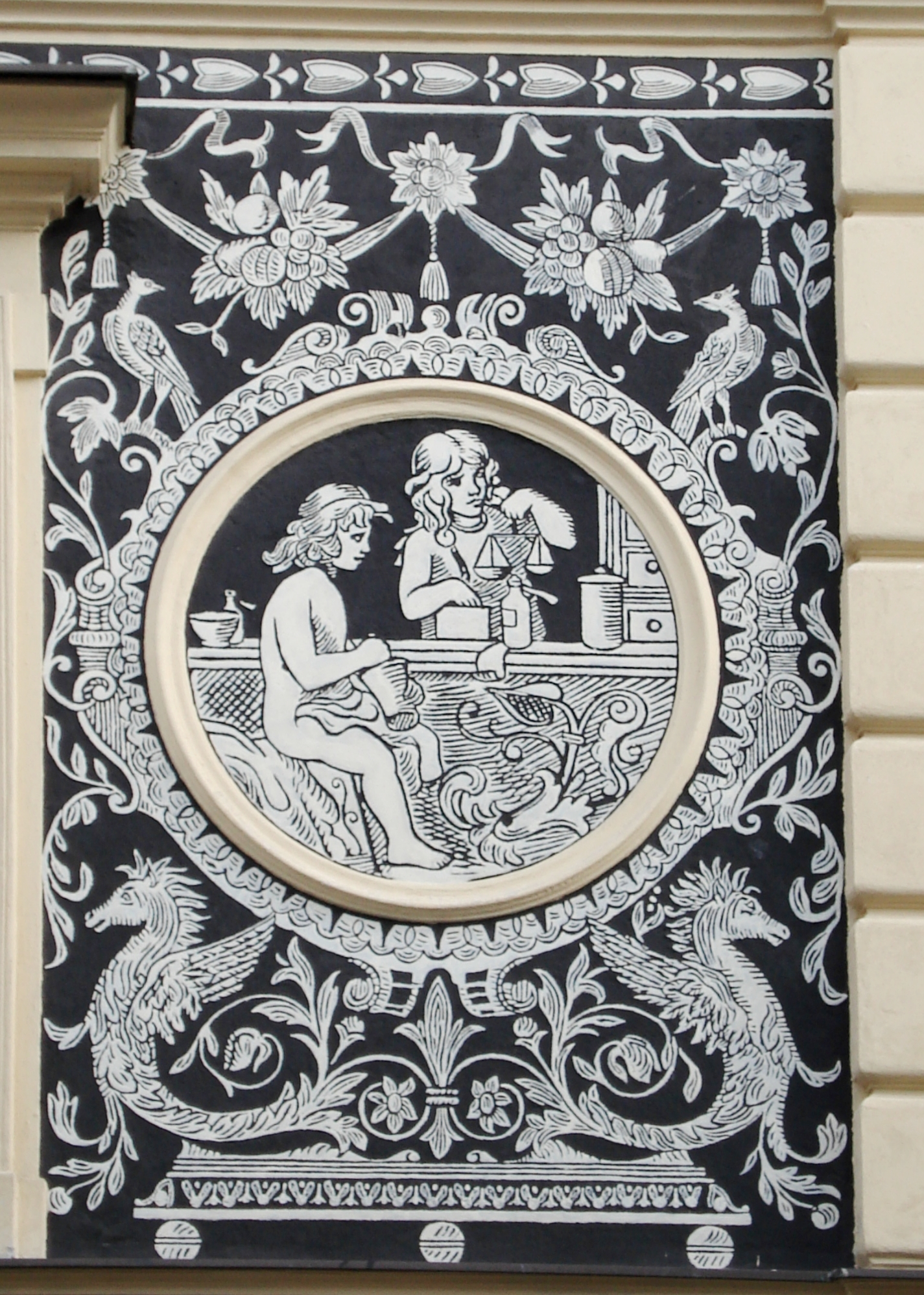 sgraffito on the facade of a former pharmacy, the little boys are preparing medecine.